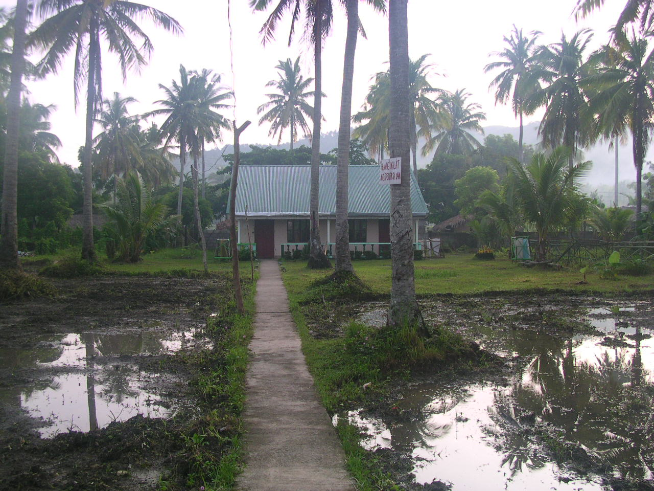 This multi-purpose school building is presently occupied by Grade VI class